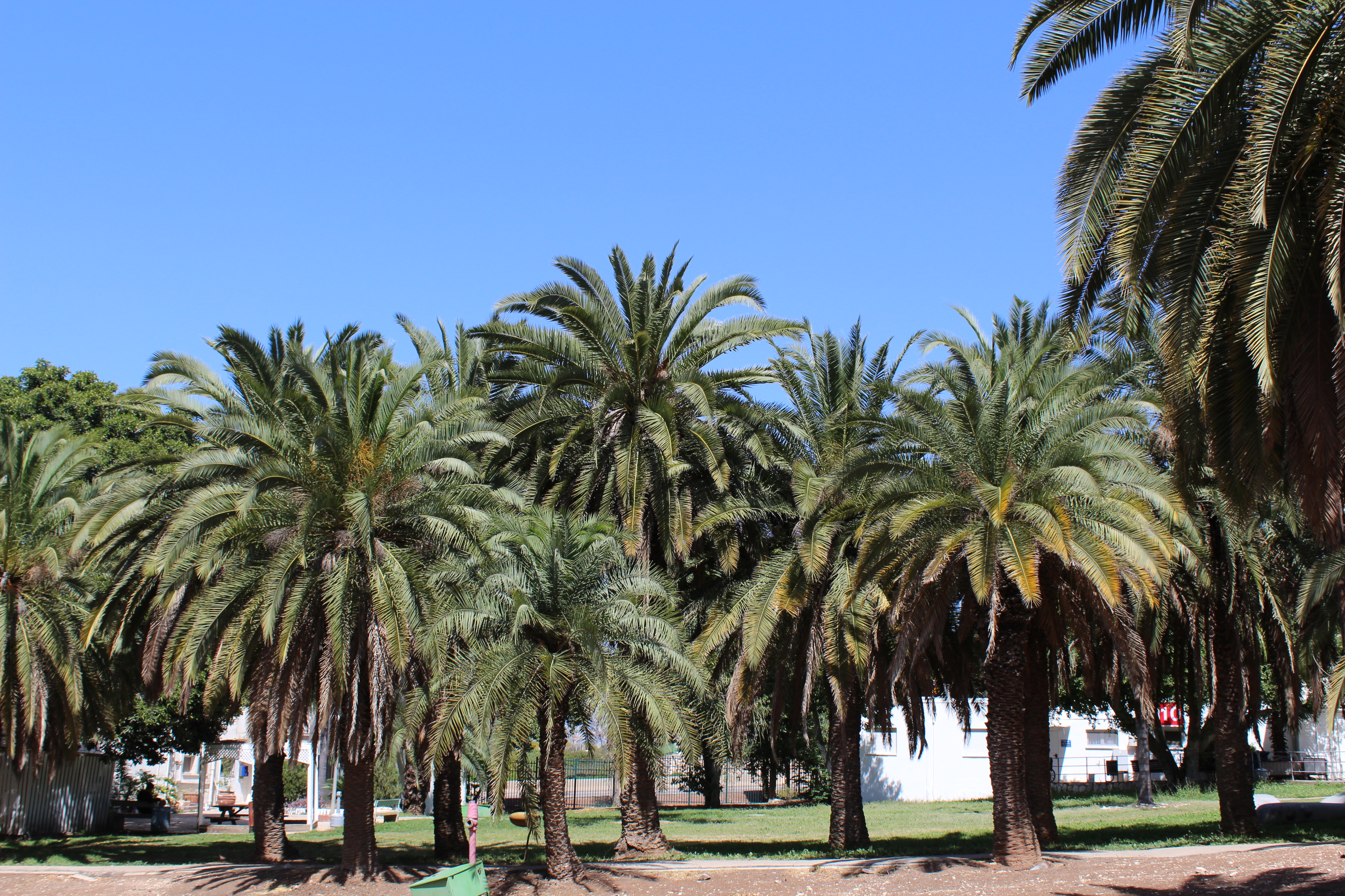 HaEmek Medical Center, Afula, Israel This image was taken as part of the Elef Millim project trip to Afula Ilit, in the town of Afula in the Jezreel Valley, which was held on Friday, 29th March 2013. To view all images uploaded as part of the Elef Millim Project